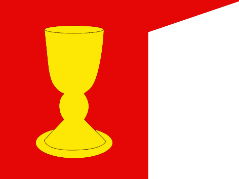 Hussite banner